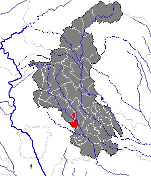 This map shows the area of the Gemeinde (municipality) Sankt Ruprecht an der Raab in the Bezirk (district) Weiz, Styria, Austria.